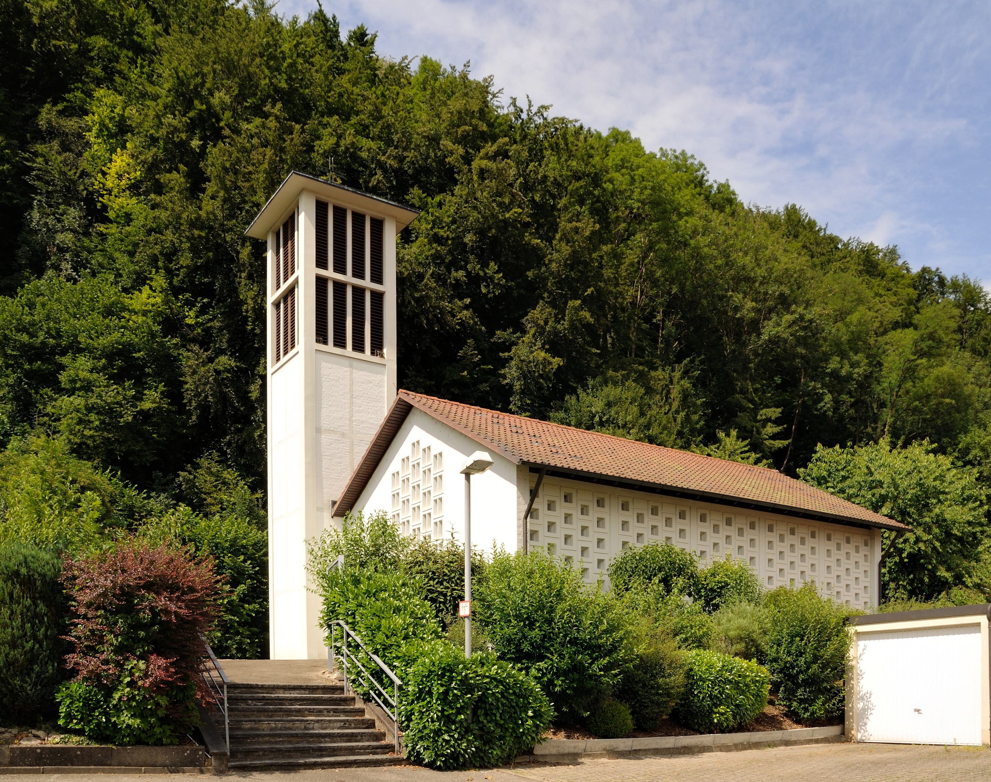 Schwörstadt: Protestant Church